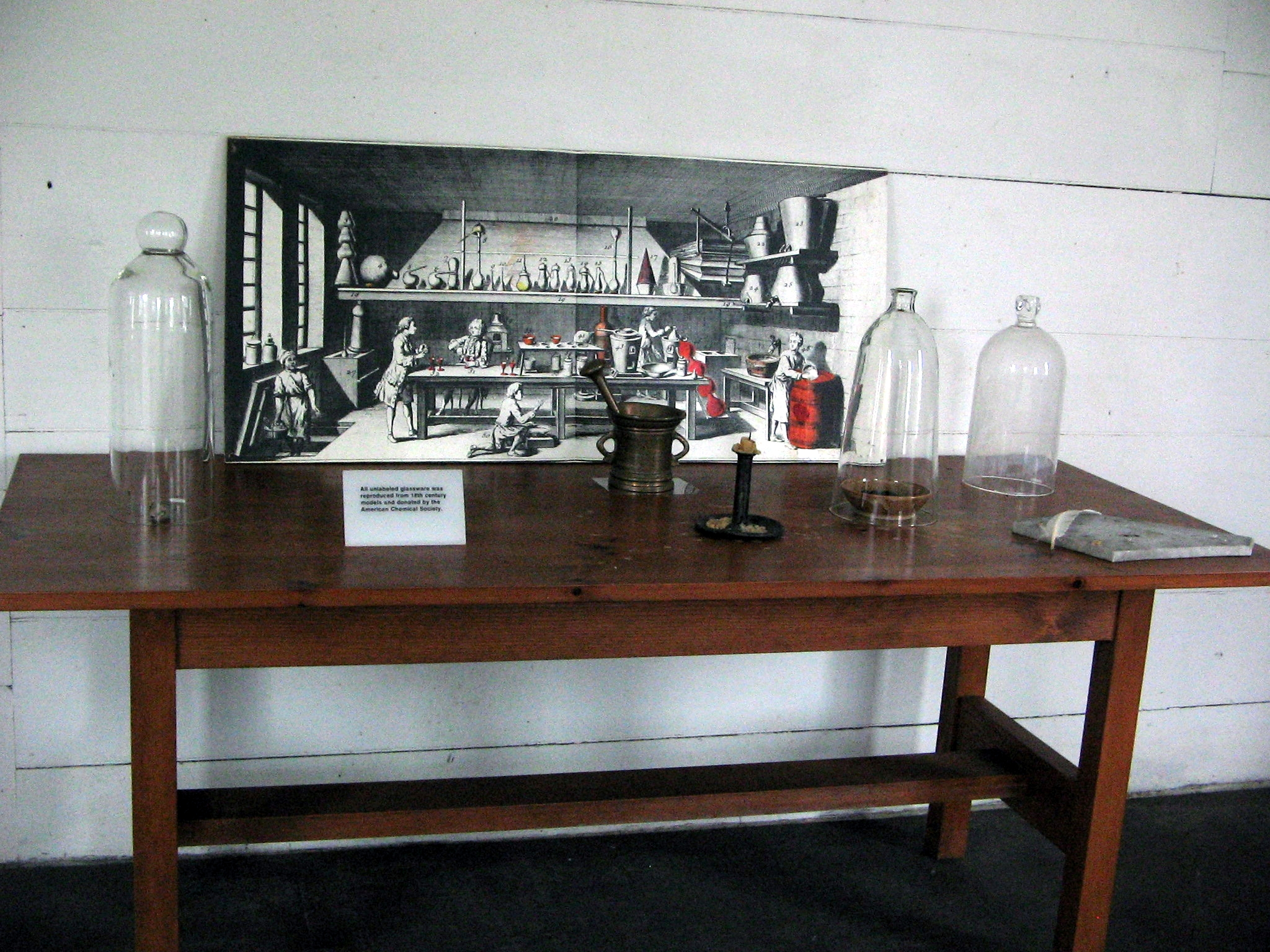 Northeast end of the Laboratory with a table showing replicas of lab equipment owned by Priestley in the Joseph Priestley House in Northumberland, Northumberland County, Pennsylvania, USA.